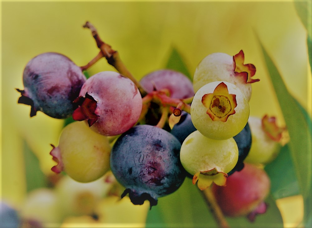 Patts Blueberries.